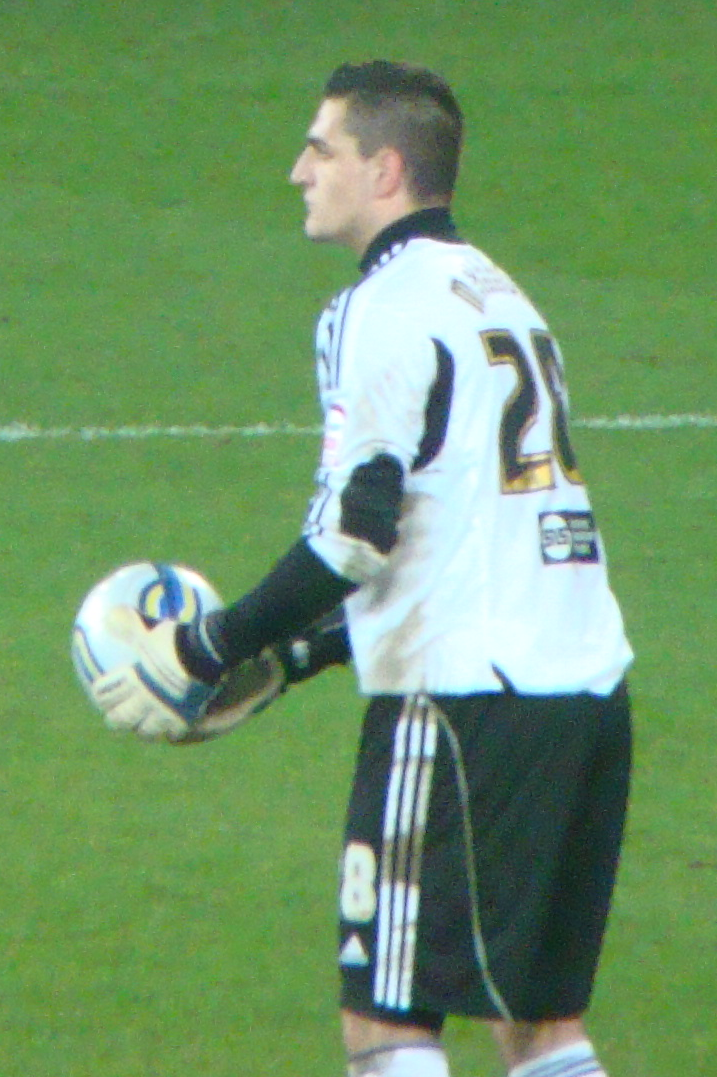 Vito Mannone. Image cropped from original at flickr.